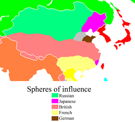 Created from :Image:BlankMap-World.png.